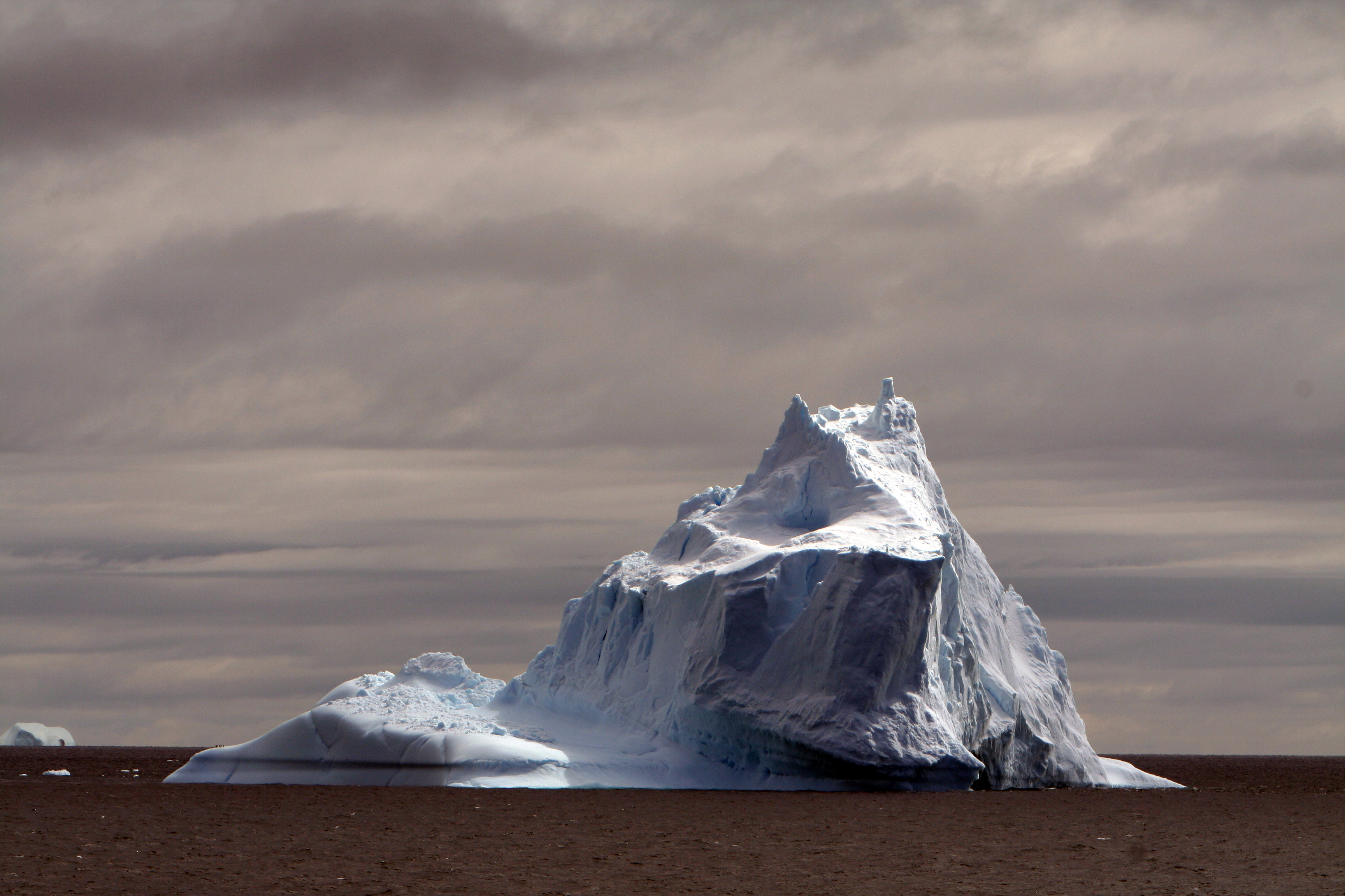 Iceberg in Antarctic waters